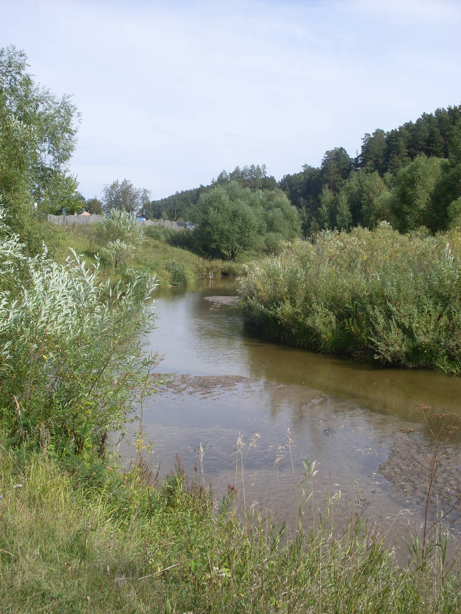 Barnaulka River in Borzovaya Zaimka